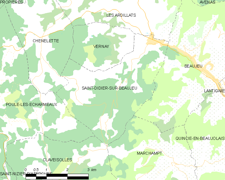 Map of French municipality